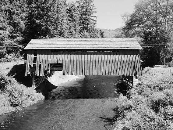 Drift Creek Bridge, Spanning Drift Creek on Drift Creek County Road, Lincoln City vicinity (Lincoln County, Oregon). West elevation of Drift Creek Bridge, view looking east from new alignment of Drift Creek Road